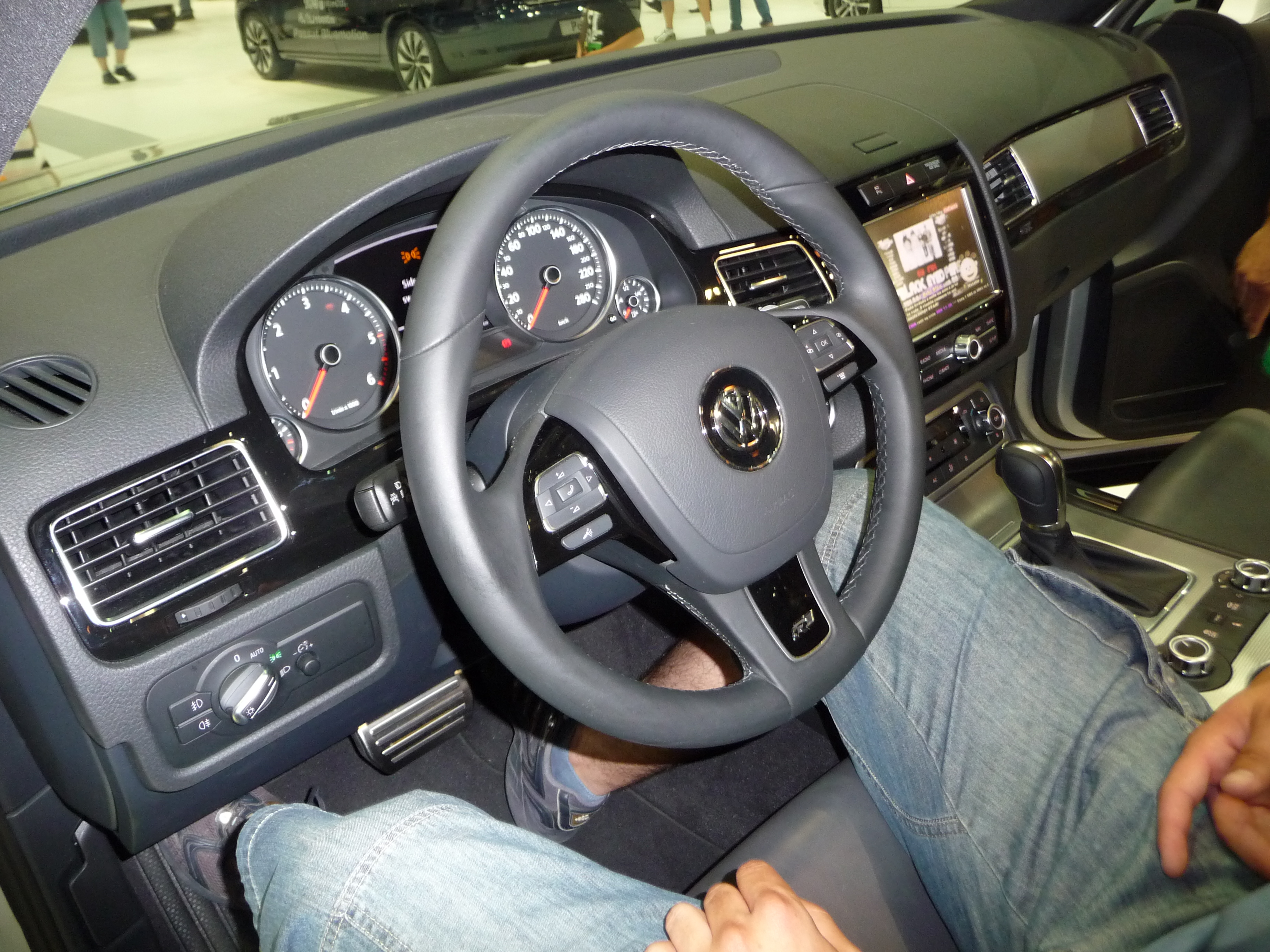 Volkswagen interior, Autosalon Brno 2011, The Brno Exhibition Grounds -10 -5 -3 -2 ◄ ► +2 +3 +5 +10